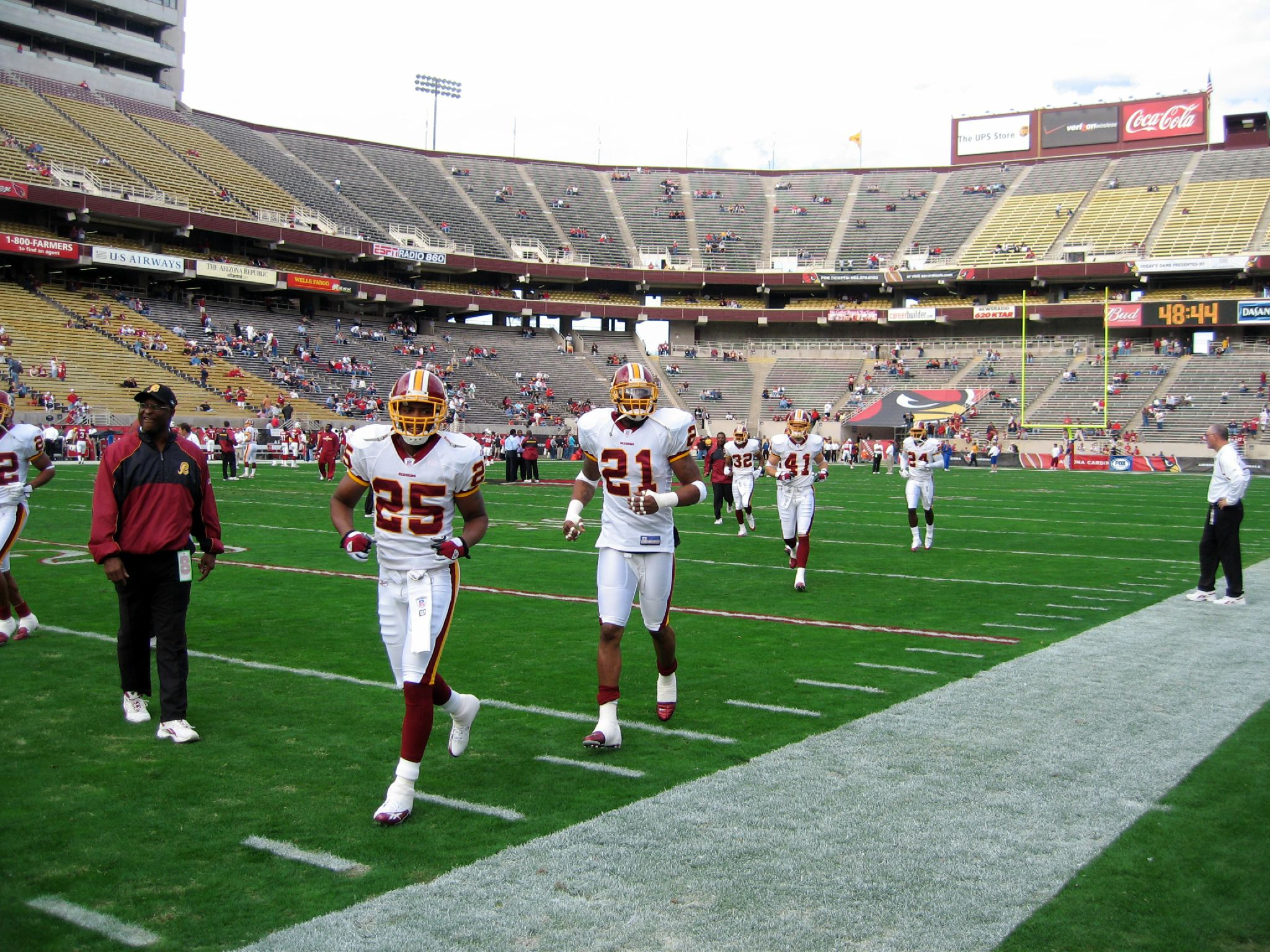 The players depicted are believed to be #25 Ryan Clark, #21 Sean Taylor, #41 Matt Bowen, #32 Ade Jimoh, and #24 Shawn Springs (all defensive backs)